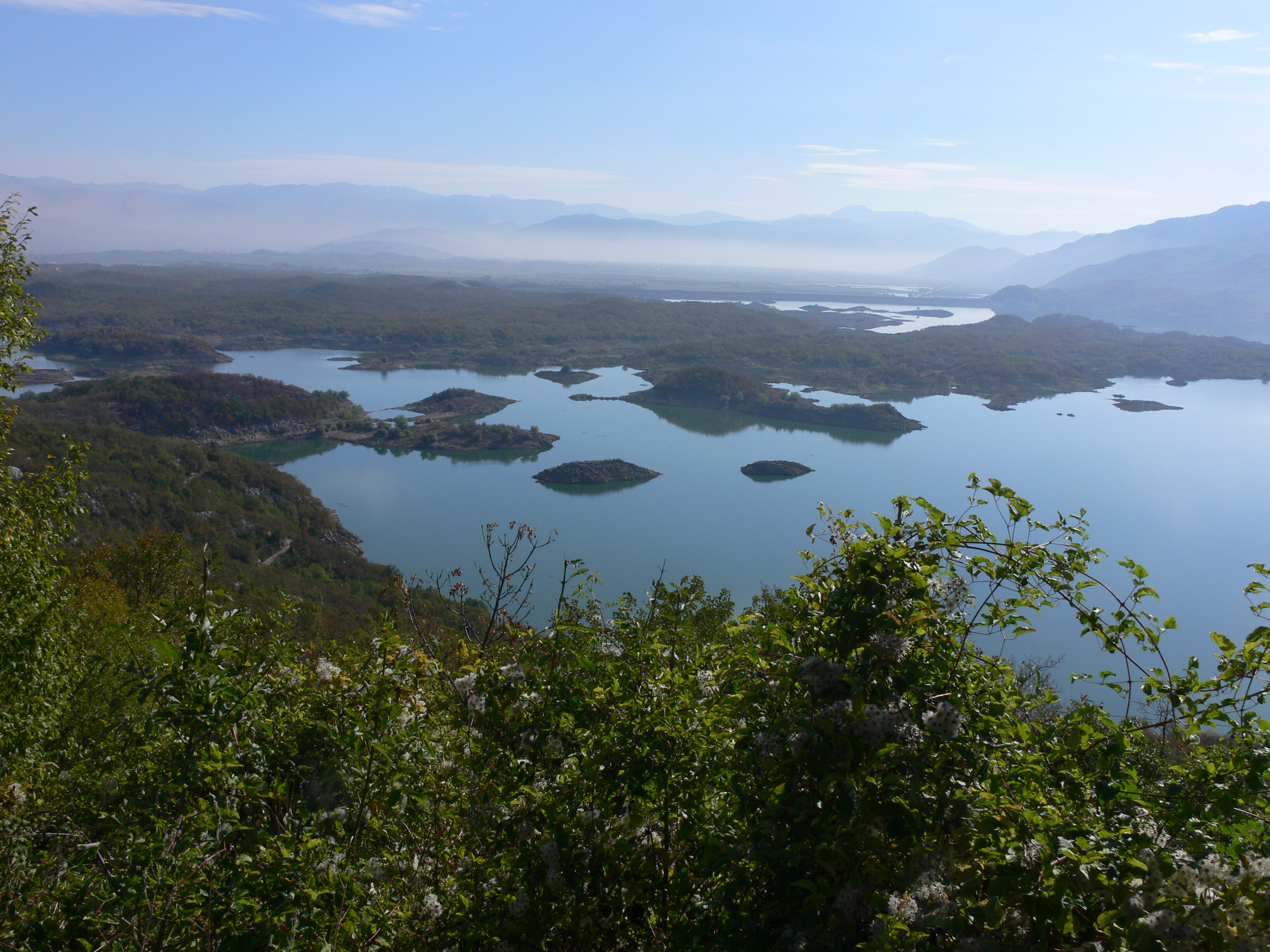 Islands in the Slansko jezero, artificial lake west of Nikšić, Montenegro, facing south east